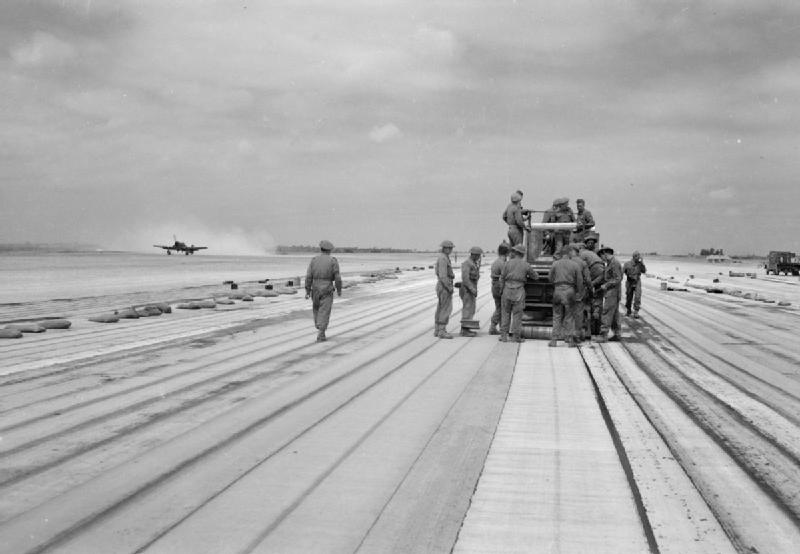 Royal Air Force- 2nd Tactical Air Force, 1943-1945. Soldiers of the Pioneer Corps laying prefabricated bitumised strips (PBS) for a new runway at B10/Plumetot, Normandy, as a Hawker Typhoon of No. 198 Squadron RAF takes off on the airstrip.